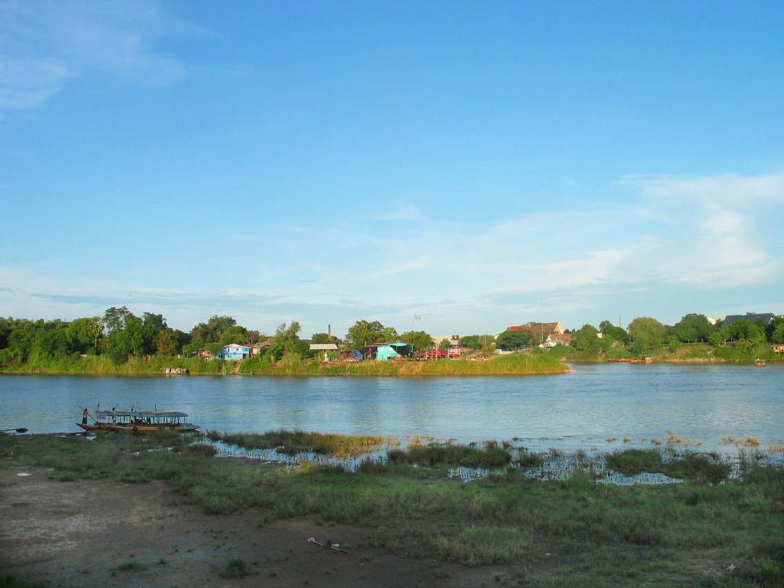 Origin of the Chao Phraya River, Nakhon Sawan, Thailand.